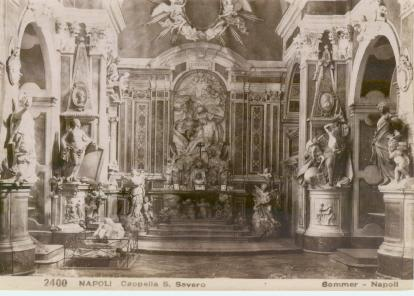 Giorgio Sommer (1834-1914), "Naples. Sansevero chapel". Catalogue number: 2400.